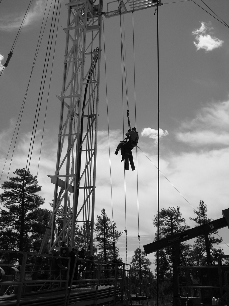 Photo is a worker for A-plus Well Service in Farmington NM performing a fall rescue drill. Falls are the fifth most common event leading to an occupational fatality for oil and gas extraction workers. Wearing fall protection whenever working at height is essential to protecting workers from injury